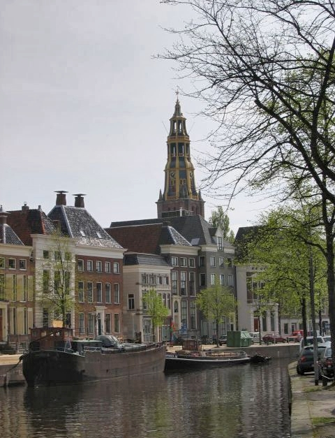 The Aa Church